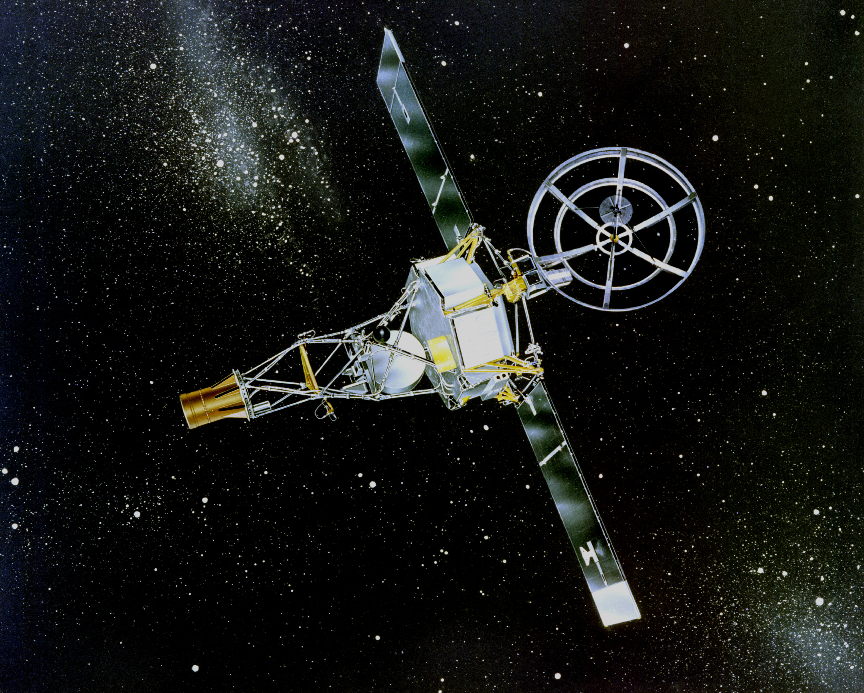 Mariner 2 was the world's first successful interplanetary spacecraft. Launched August 27, 1962, on an Atlas-Agena rocket, Mariner 2 passed within about 34,000 kilometers (21,000 miles) of Venus, sending back valuable new information about interplanetary space and the Venusian atmosphere. Mariner 2 recorded the temperature at Venus for the first time, revealing the planet's very hot atmosphere of about 500 degrees Celsius (900 degrees Fahrenheit). The spacecraft's solar wind experiment measured for the first time the density, velocity, composition and variation over time of the solar wind.